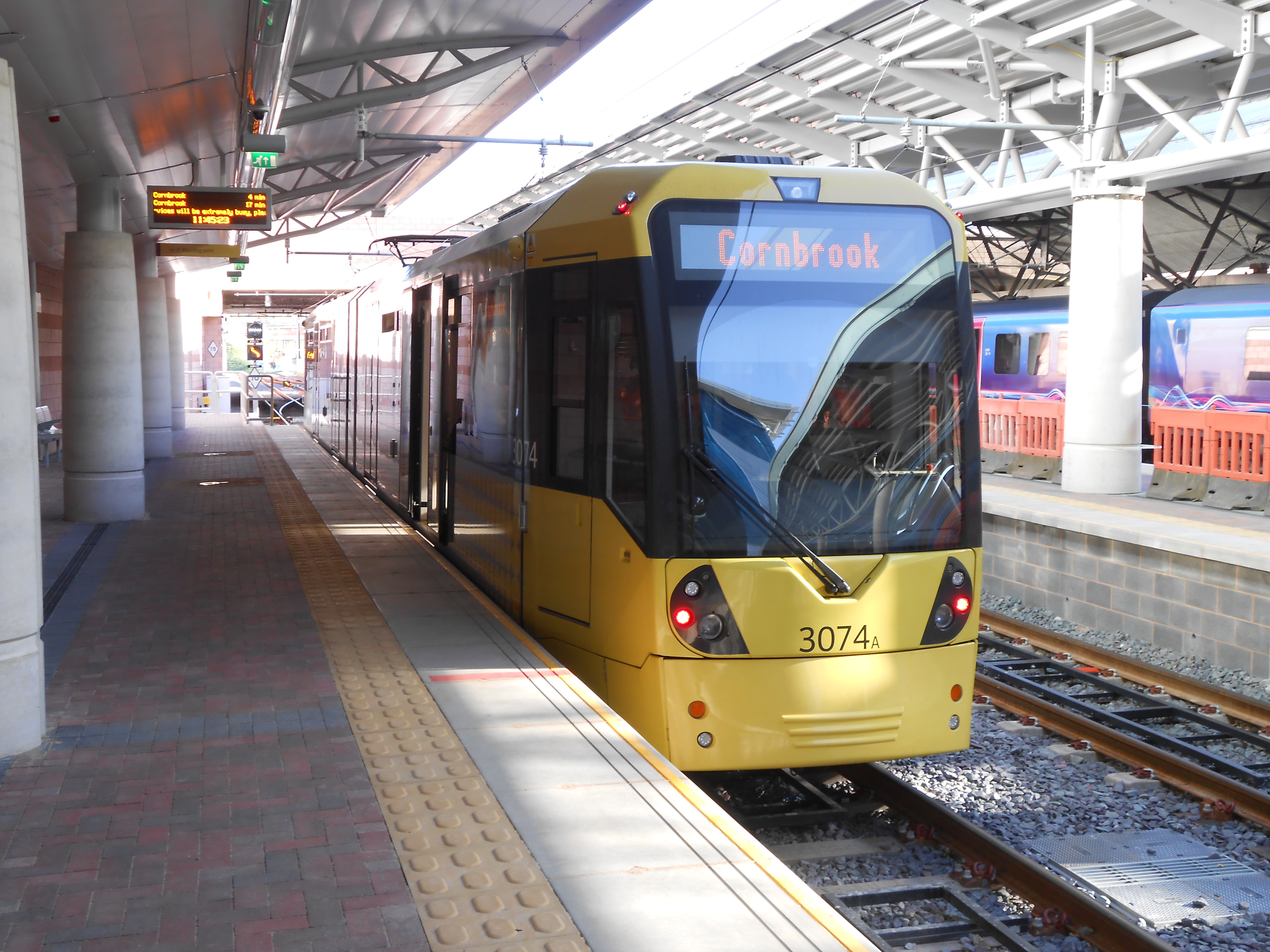 Tram 3074 at Manchester Airport Metrolink station.